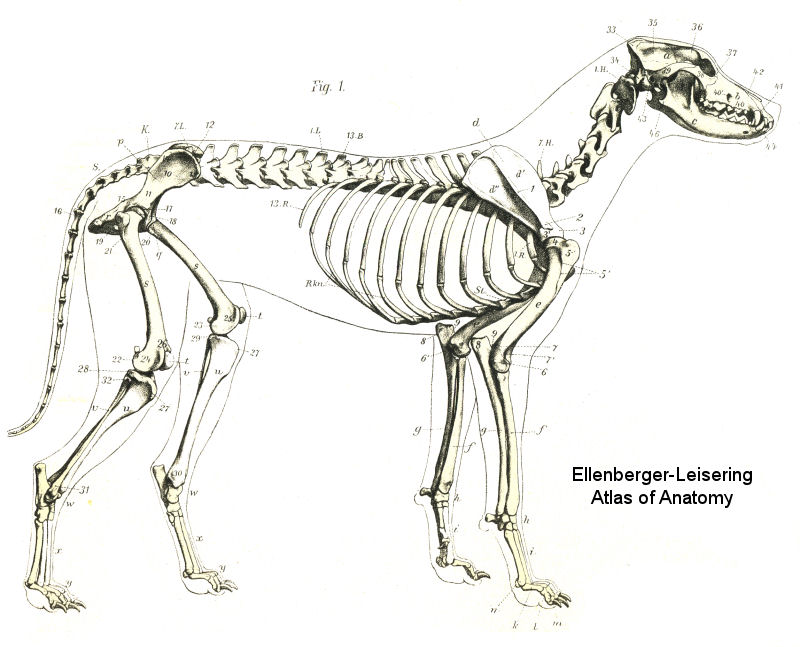 Skeletal system of a dog from Ellenberger Leisering atlas of anatomy Vol 1, 1908